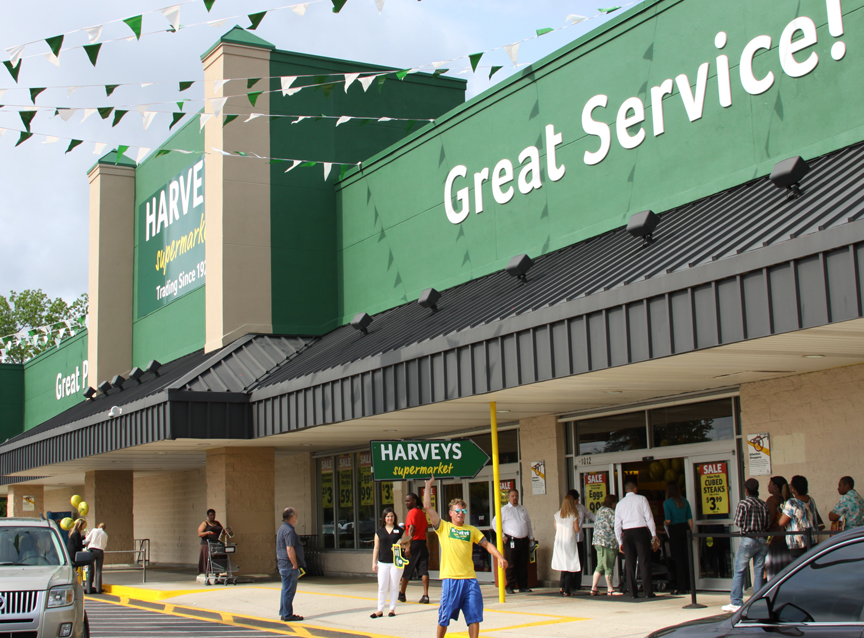 Harveys grand opening